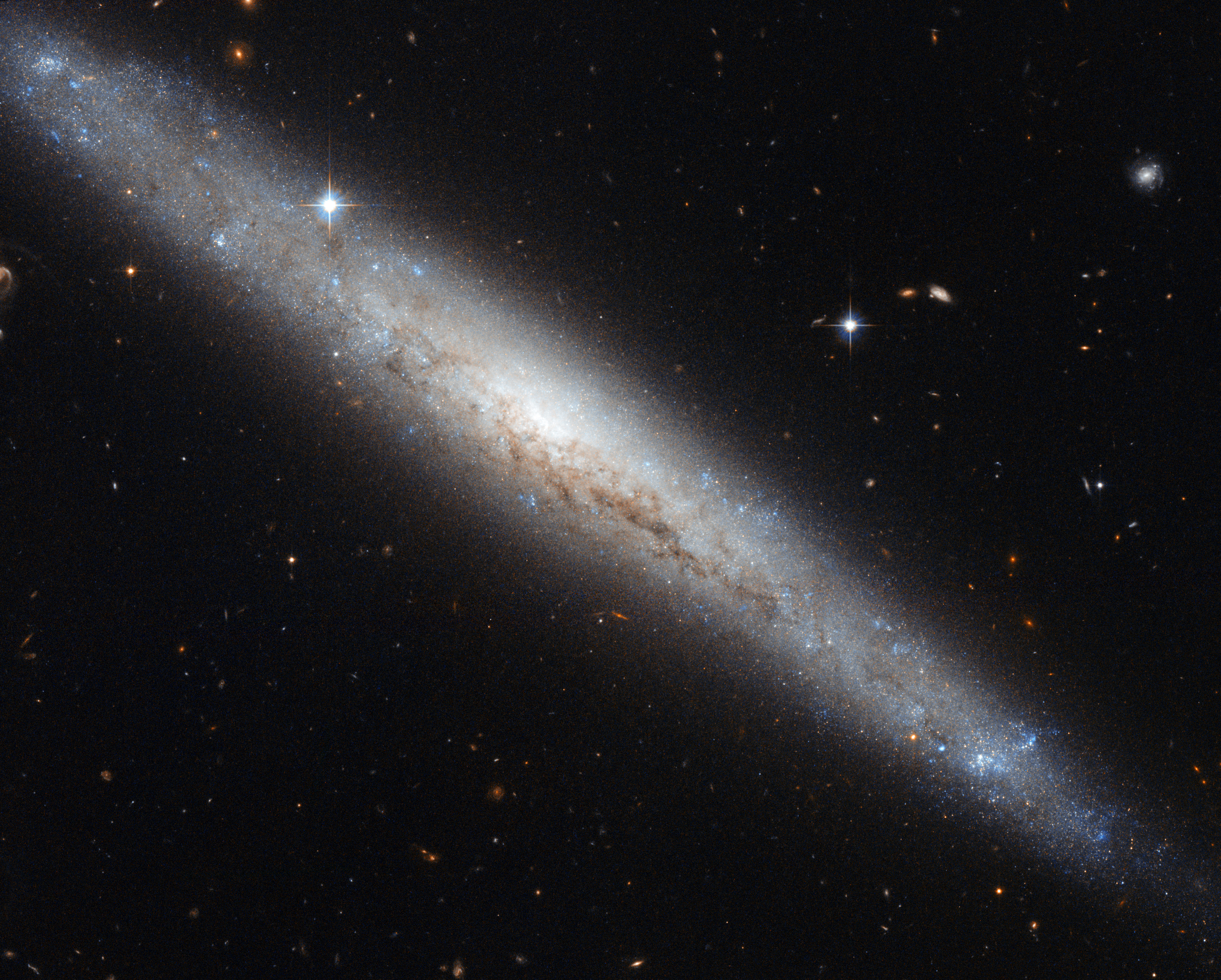 The NASA/ESA Hubble Space Telescope has provided us with another outstanding image of a nearby galaxy. This week, we highlight the galaxy NGC 4183, seen here with a beautiful backdrop of distant galaxies and nearby stars. Located about 55 million light-years from the Sun and spanning about eighty thousand light-years, NGC 4183 is a little smaller than the Milky Way. This galaxy, which belongs to the Ursa Major Group, lies in the northern constellation of Canes Venatici (The Hunting Dogs). NGC 4183 is a spiral galaxy with a faint core and an open spiral structure. Unfortunately, this galaxy is viewed edge-on from the Earth, and we cannot fully appreciate its spiral arms. But we can admire its galactic disc. The discs of galaxies are mainly composed of gas, dust and stars. There is evidence of dust over the galactic plane, visible as dark intricate filaments that block the visible light from the core of the galaxy. In addition, recent studies suggest that this galaxy may have a bar structure. Galactic bars are thought to act as a mechanism that channels gas from the spiral arms to the centre, enhancing star formation, which is typically more pronounced in the spiral arms than in the bulge of the galaxy. British astronomer William Herschel first observed NGC 4183 on 14 January 1778. This picture was created from visible and infrared images taken with the Wide Field Channel of the Advanced Camera for Surveys. The field of view is approximately 3.4 arcminutes wide. This image uses data identified by Luca Limatola in the Hubble's Hidden Treasures image processing competition.